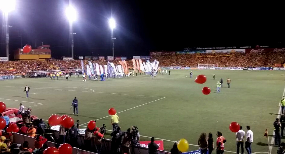 Estadio Eladio Rosabal Cordero during the final match in 2016 Verano.